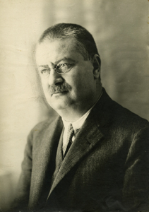 Dr Mehmet Kamil Berk